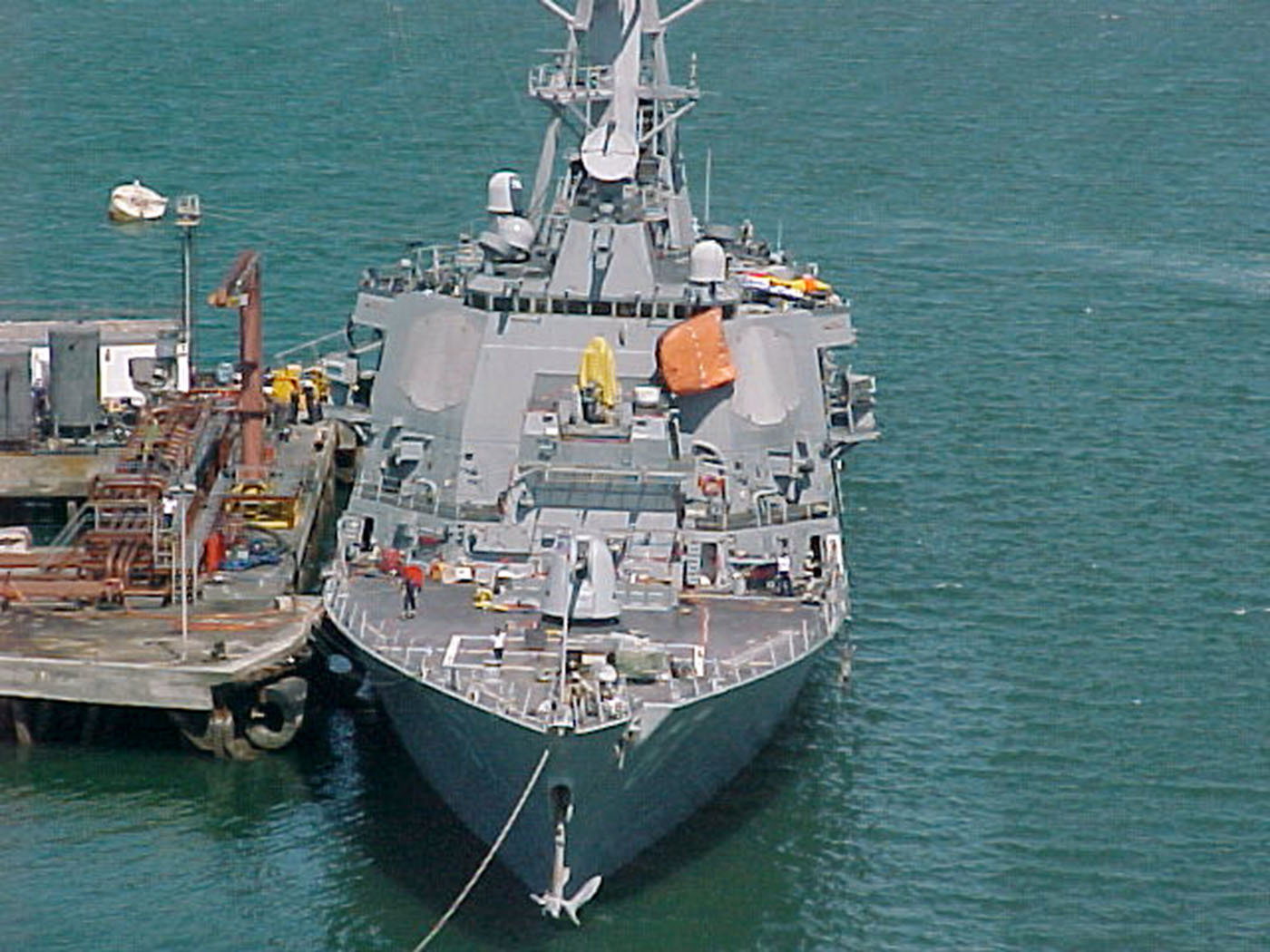 The U.S. Navy guided missile destroyer USS Cole (DDG 67) remains moored to a refueling platform in the industrial harbor in Aden, Yemen, on Oct. 15, 2000. The Arleigh Burke class destroyer was the target of a suspected terrorist attack which took place in the port of Aden on Oct. 12, 2000, during a scheduled refueling. Nine sailors were killed and eight have been listed as missing.